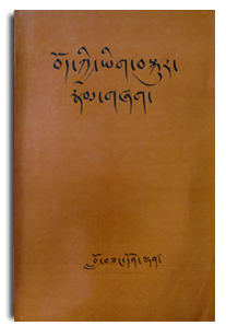 The most popular Tibetan Calligraphy and letter writing book by Losang Thonden